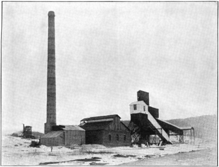 Original caption: "Figure 10. Plant of the Consolidation Coal Company's Mine No. 18, at Buxton in Monroe County. This mine has long ranked as one of the large producers of the state. In 1919 it was the largest single producer in Iowa. This view shows the plant during construction."